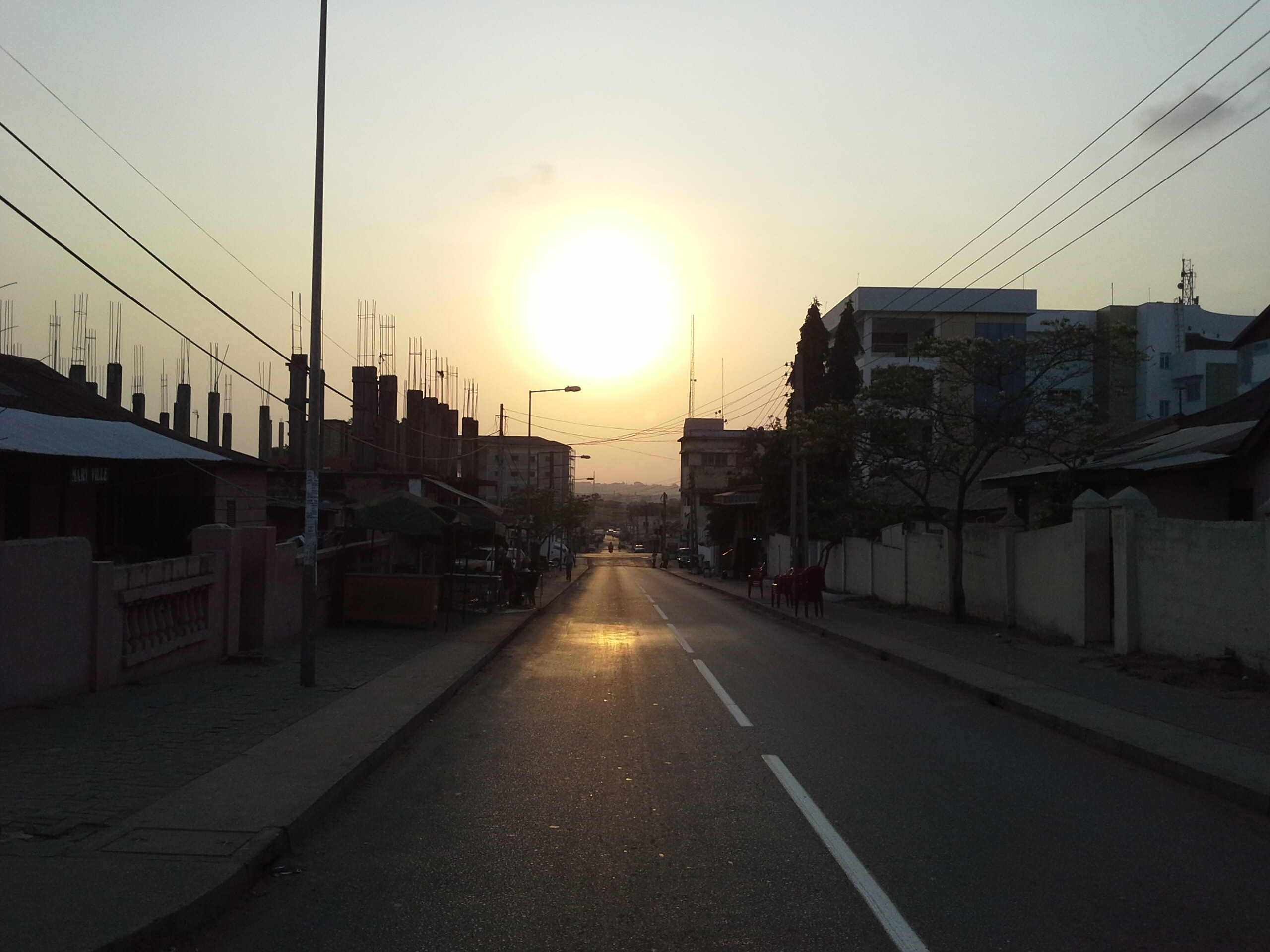 Street showing sun reflecting on the street of Adabraka